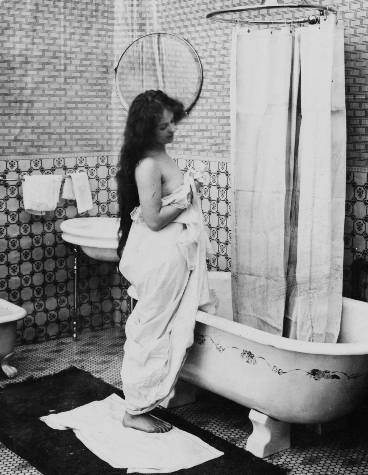 A woman before bath.